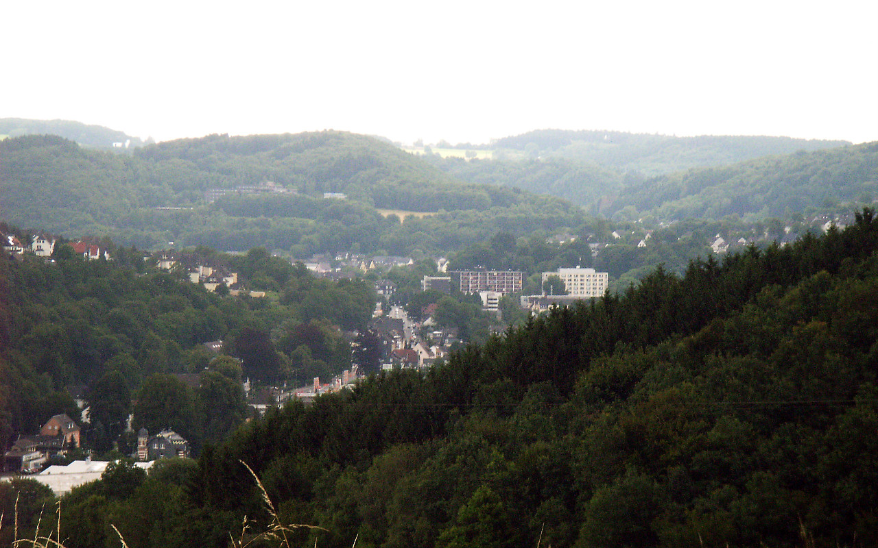 view of Dieringhausen, district of Gummersbach, North Rhine-Westphalia, Germany